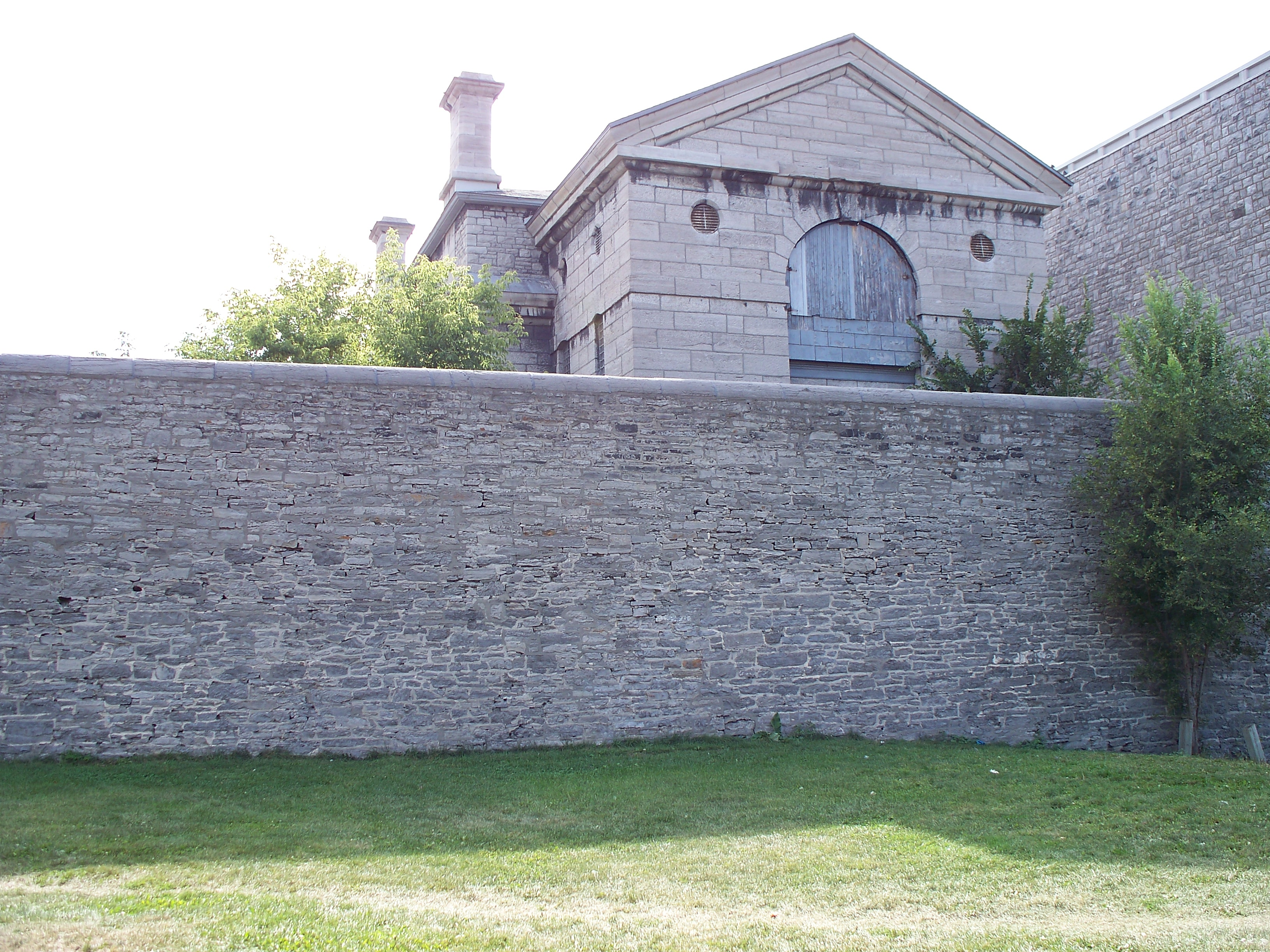 The gallows (behind the wall, doors closed) of Nicholas Street Gaol (now Ottawa Jail Hostel) in Ottawa, Ontario, Canada, as seen from the viewpoint of a public spectator.